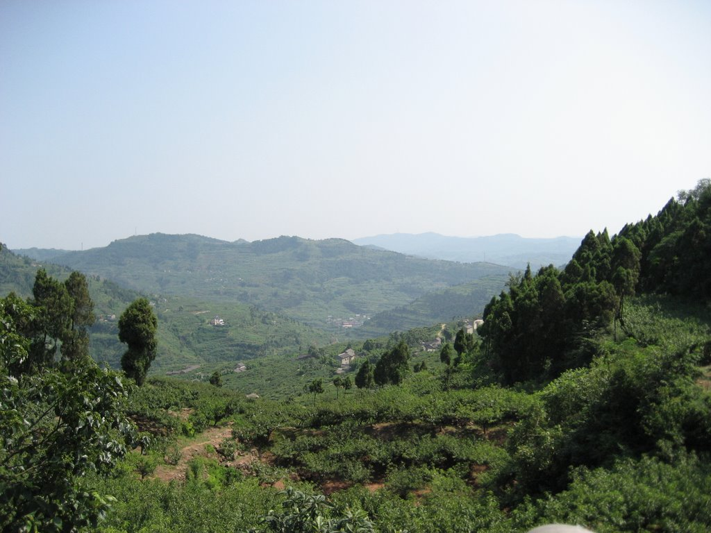 The Longquan Mountains in Lonquuanyi District